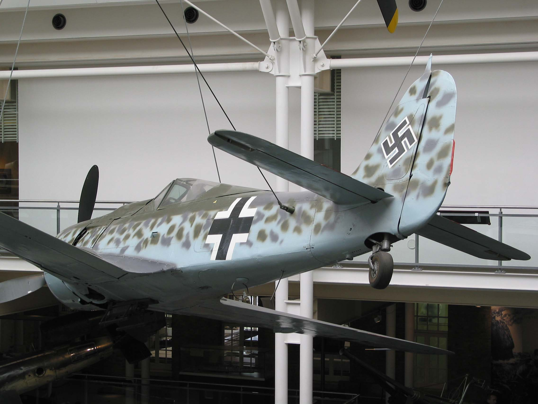 A german Fw 190 A-8 (W-Nr:733682) fighter plane at the Imperial War Museum.